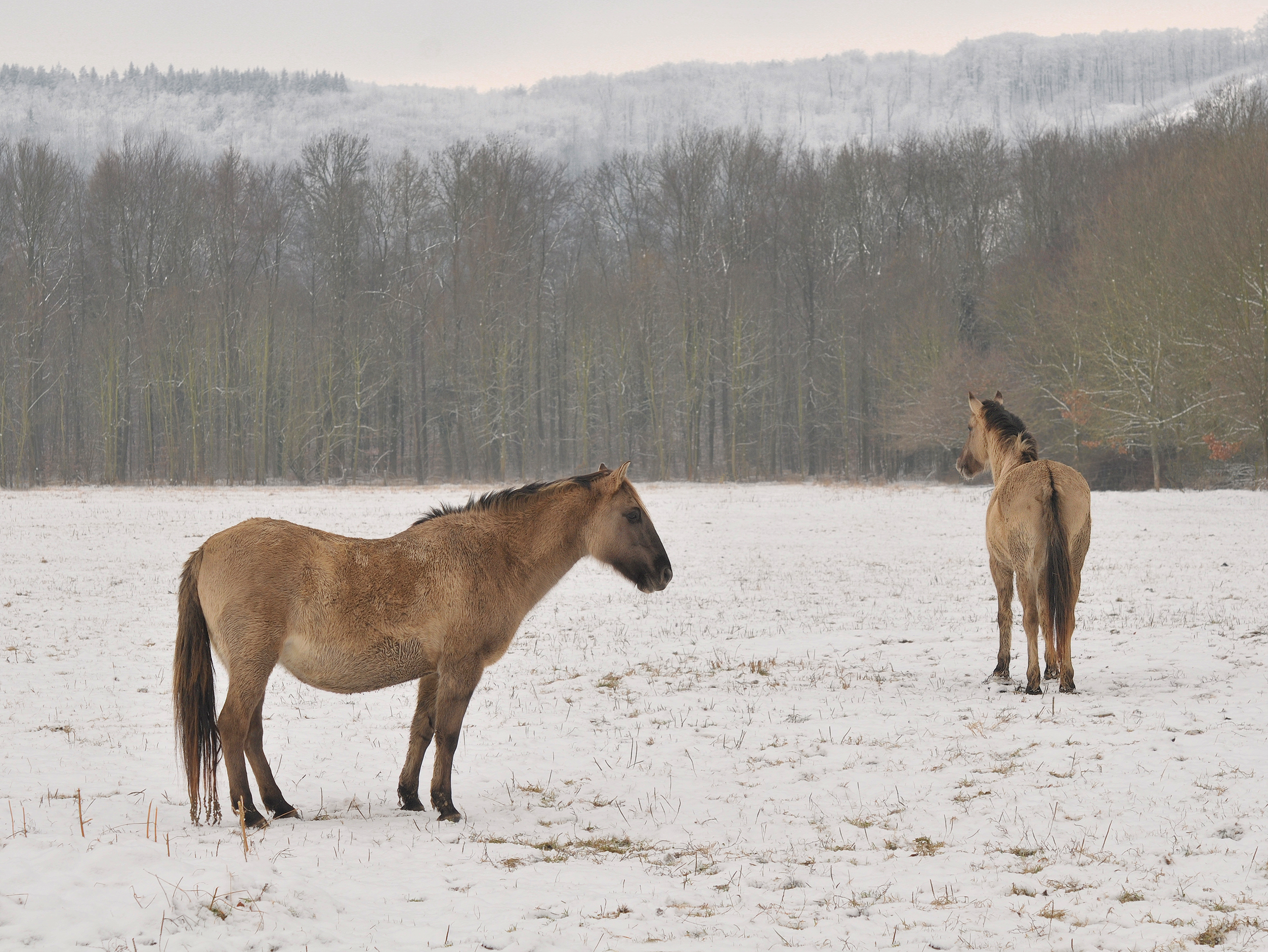 Sorraia in the Wisentgehege Springe game park near Springe, Hanover, Germany. The Sorraia is a rare breed of horse indigenous to the portion of the Iberian peninsula known today as Portugal. The Sorraia is known for its primitive features, including a convex profile and dun coloring with primitive markings.